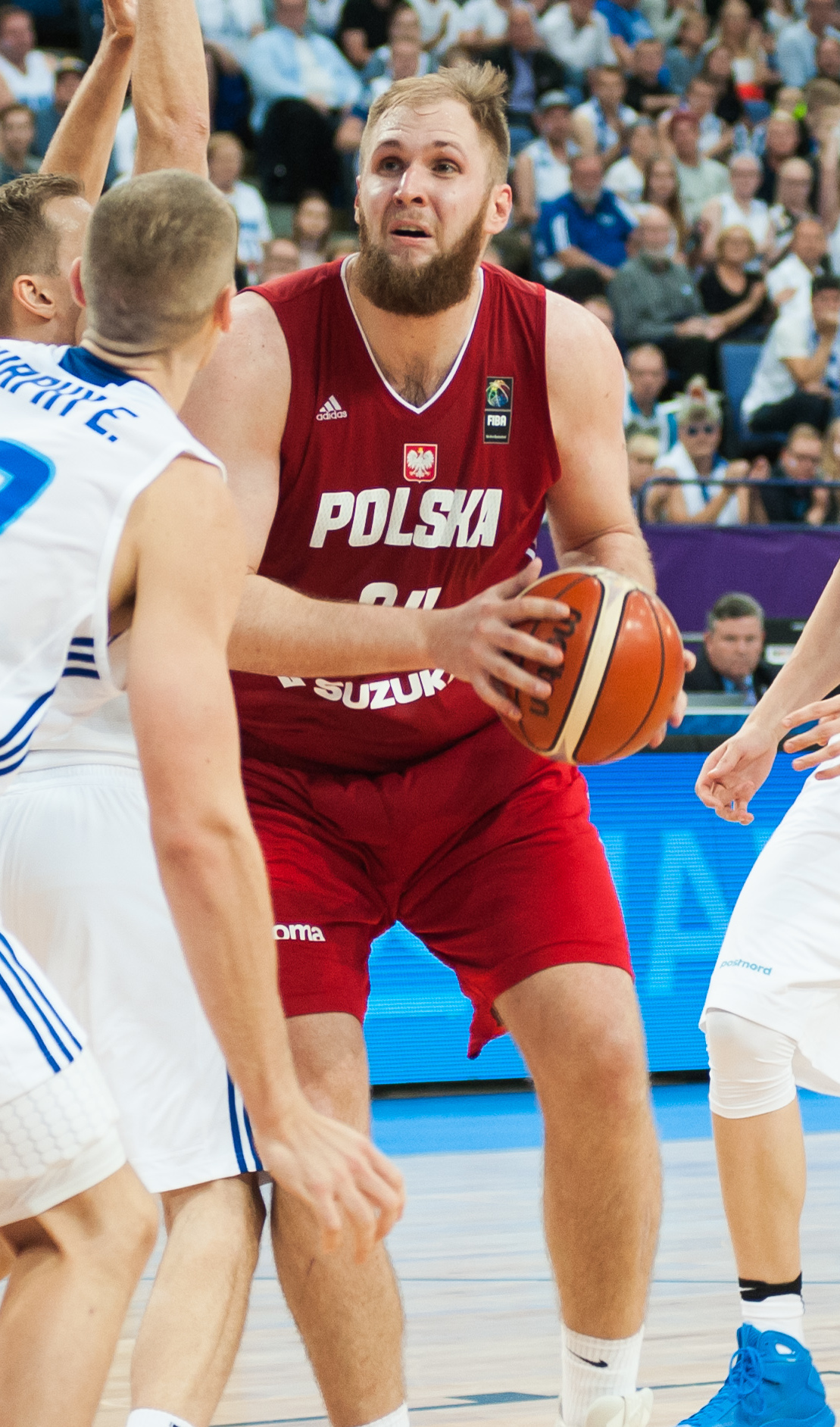 EuroBasket 2017 Group A game between Finland and Poland at Hartwall Arena in Helsinki, Finland.